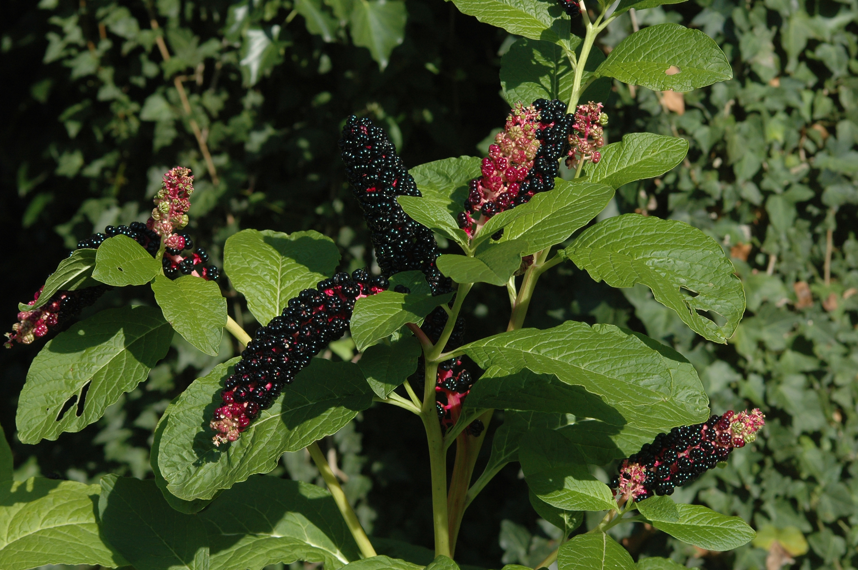 Asiatische Kermesbeere Phytolacca acinosa auctorum eigene Aufnahme/own photo, August 2006